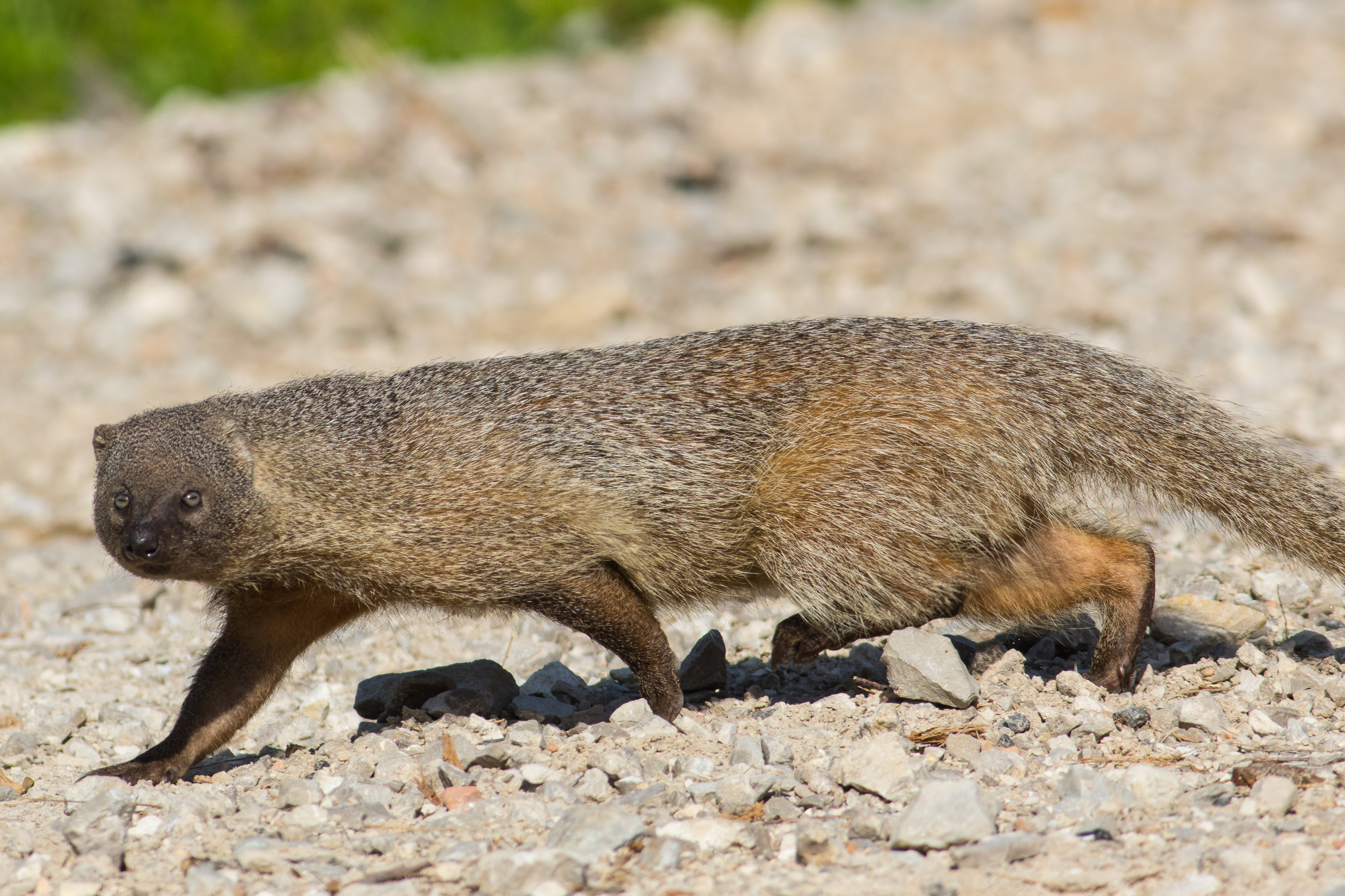 Herpestes ichneumon, Ashkelon National Park, Israel.